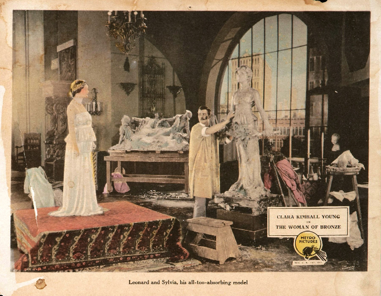 Lobby card for the 1923 film Woman of Bronze. There are no copyright marks. At lower left is Made in USA. At lower right is The Rotograph Co,, NY-both in image.